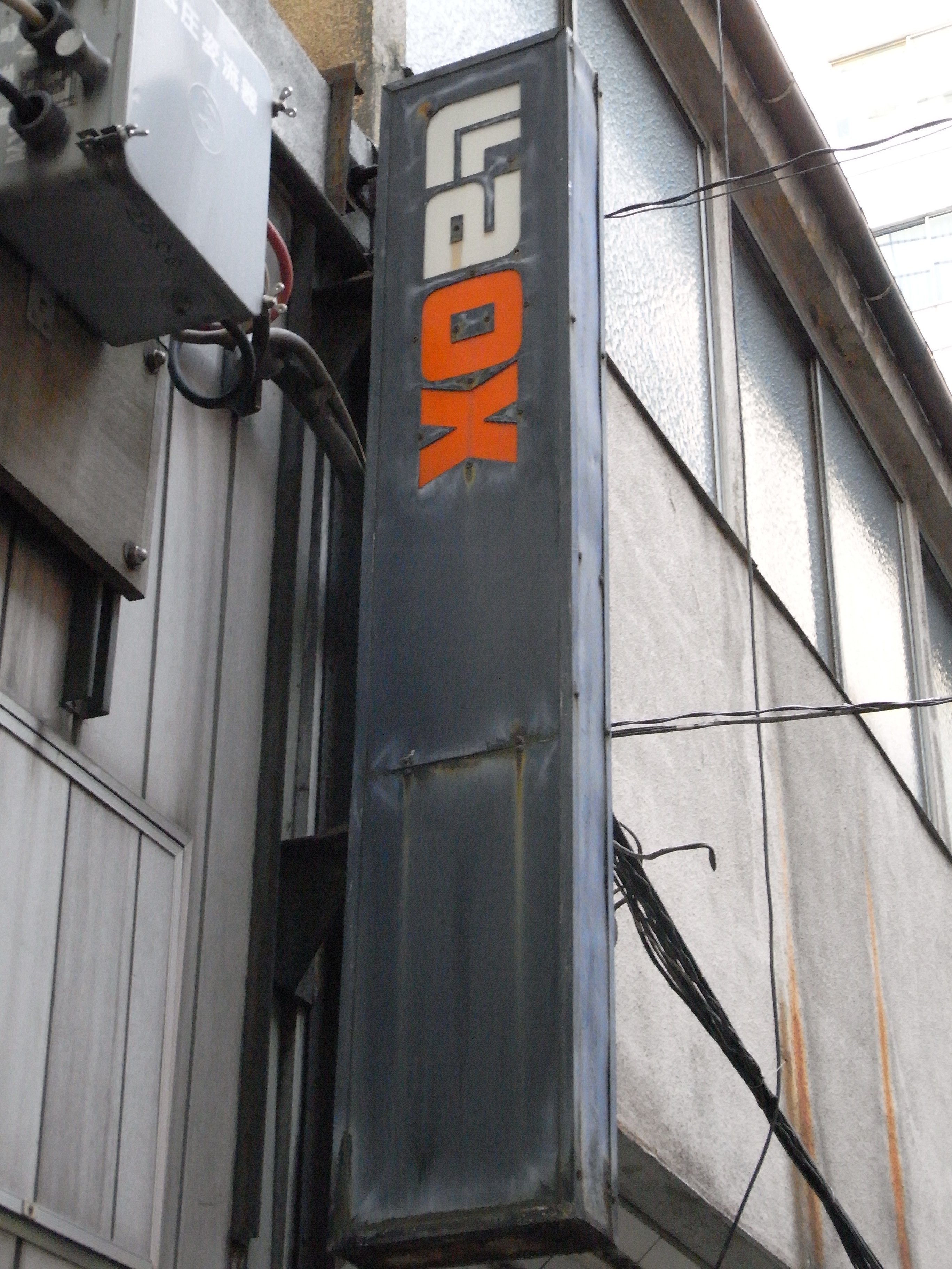 LaOX old signboard in Akihabara, Tokyo.